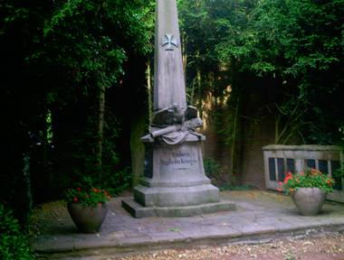 This is a picture of the "Kriegerehrenmal" in Vorhelm in Germany